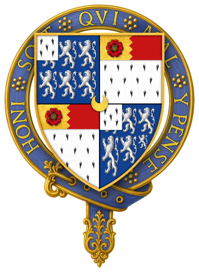 Ancient arms Cheney, as born by Sir John Cheney, KG